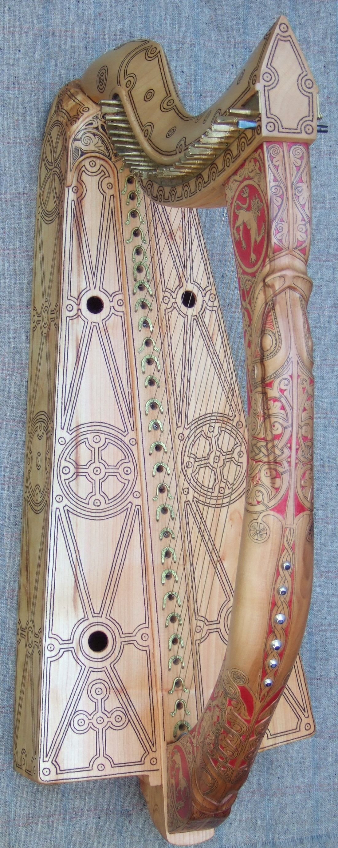 Replica of the 15th century medieval Scottish clarsach known as the 'Queen Mary Harp', built by Irish harpmaker Davy Patton, 2006-7, and owned and played by historical harp expert Simon Chadwick.